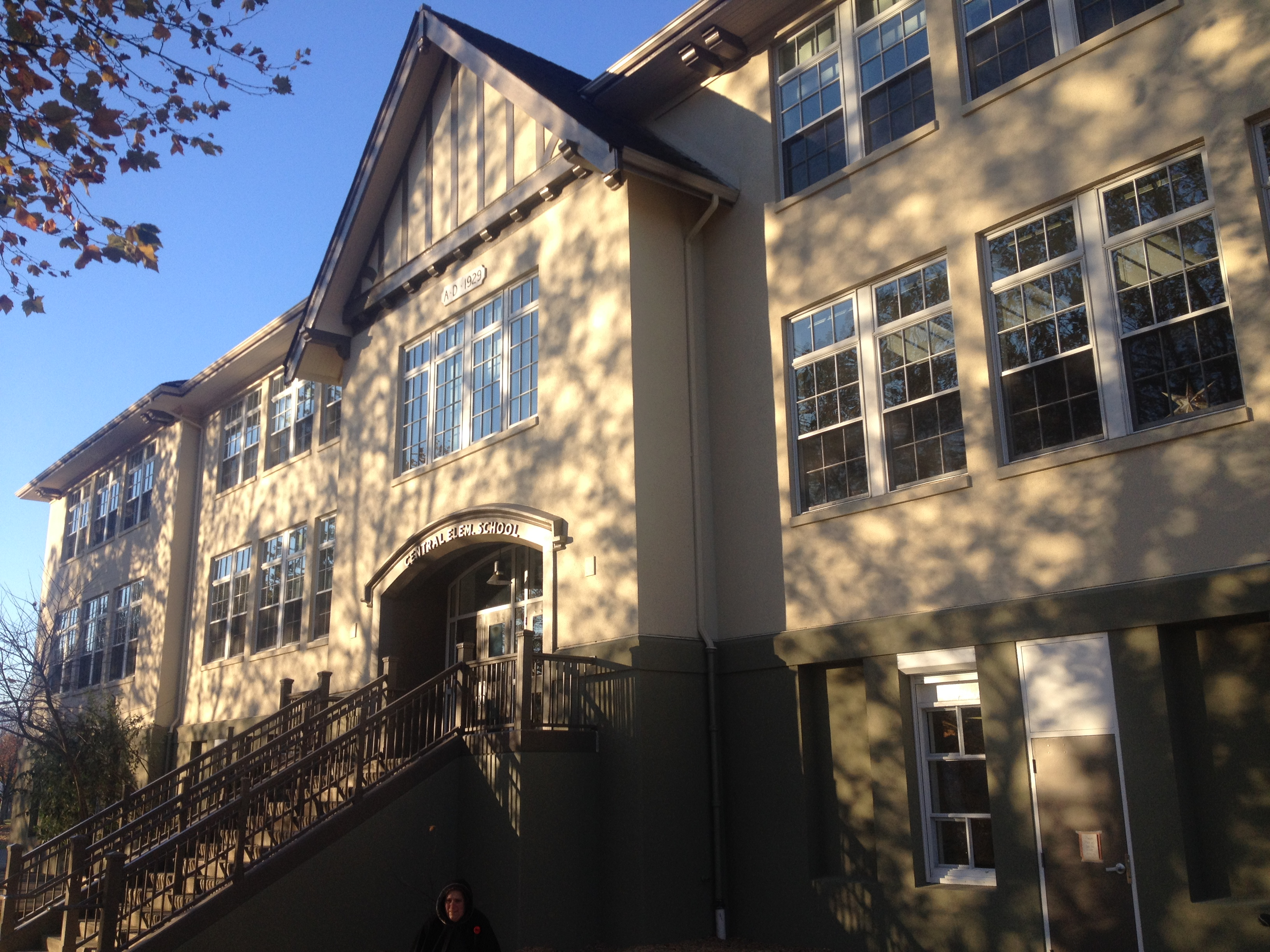 Central